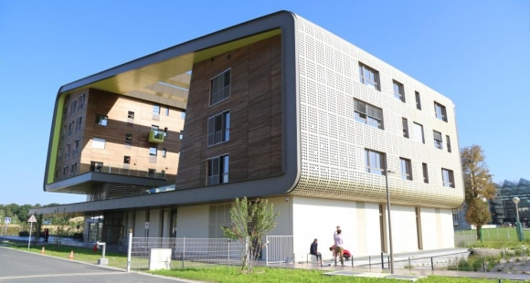 Bâtiment Coriolis à énergie positive.